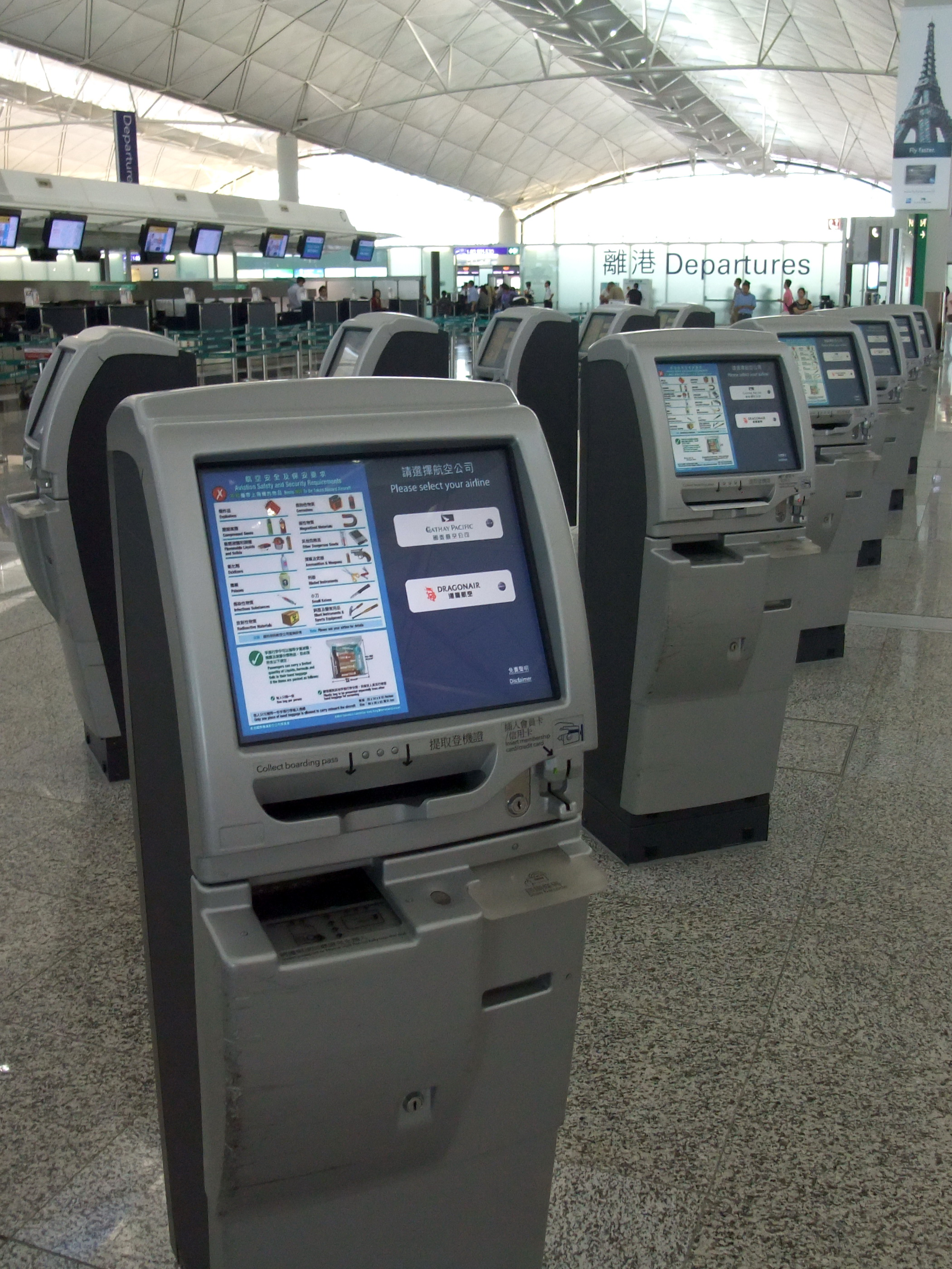 Self check-in kiosks at the Hong Kong International Airport Terminal 1 Aisle C.